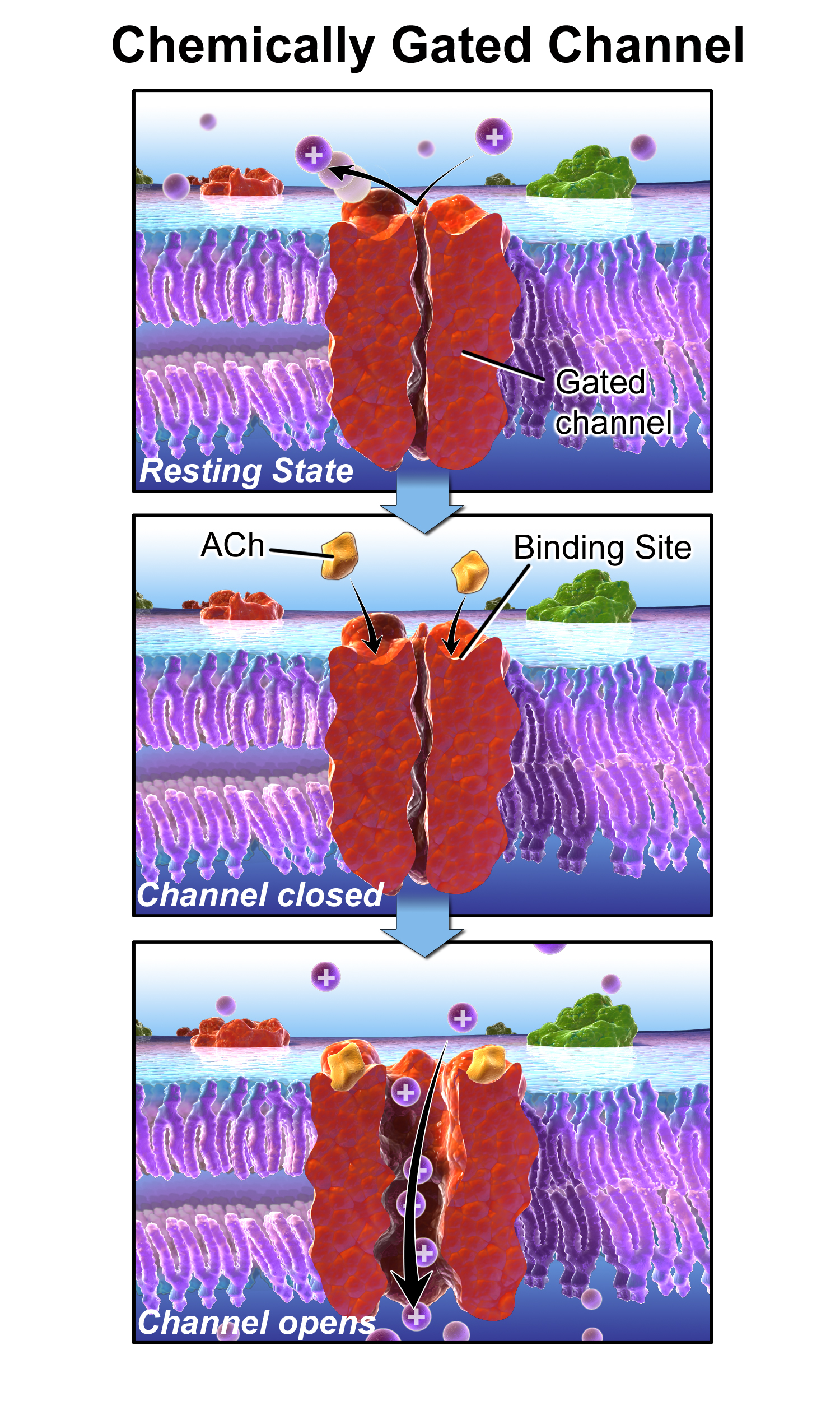 Chemically Gated Channel. See a full animation of this medical topic.